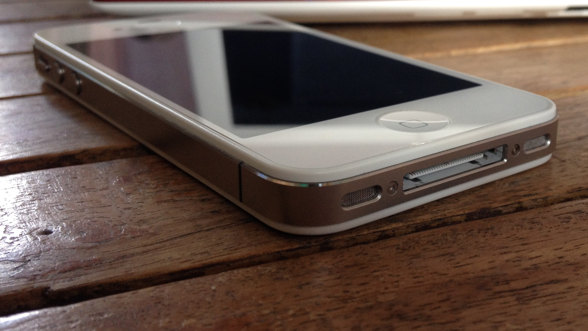 Apple iPhone 4s White 30-pin Dock